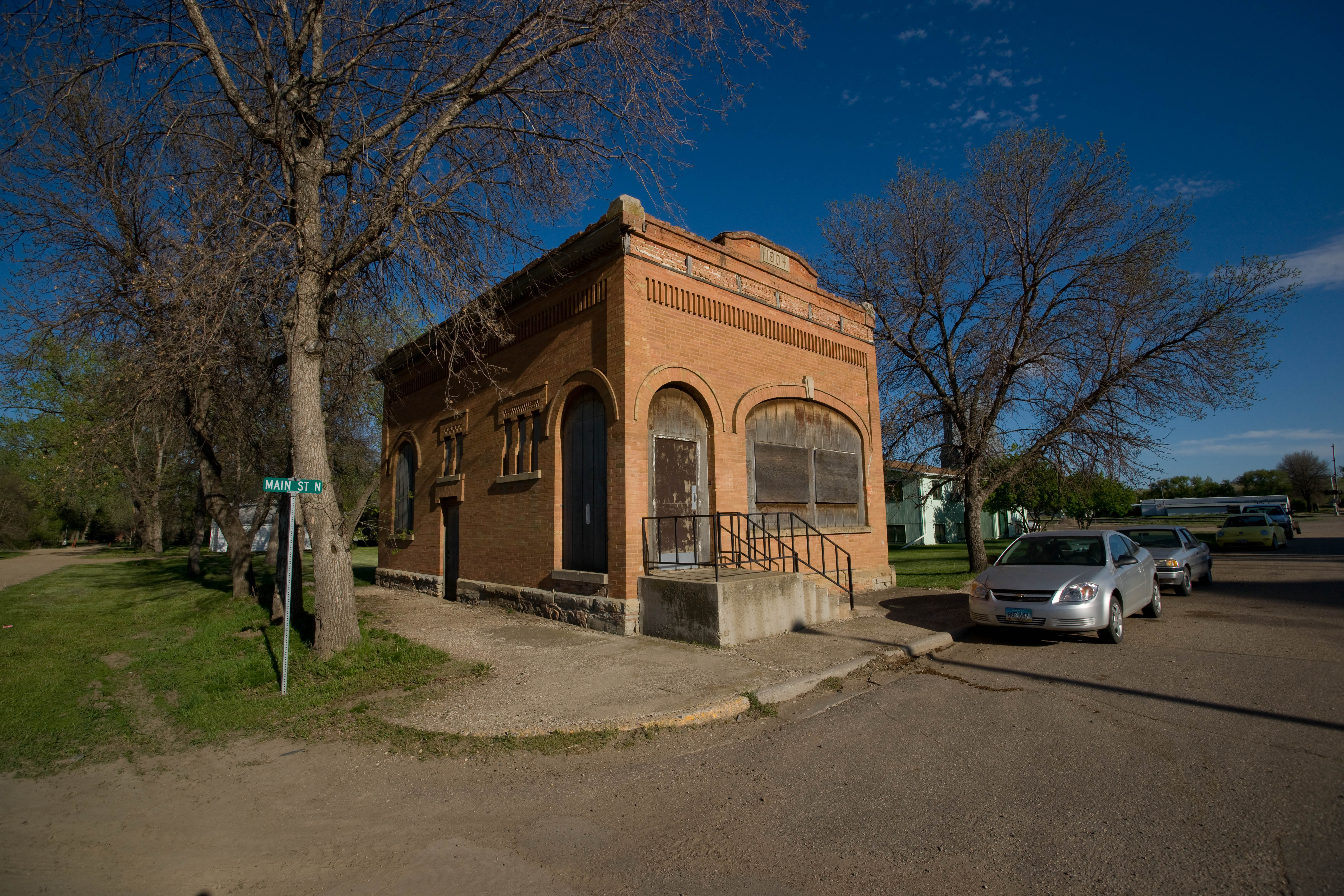 Main Street in Carpio